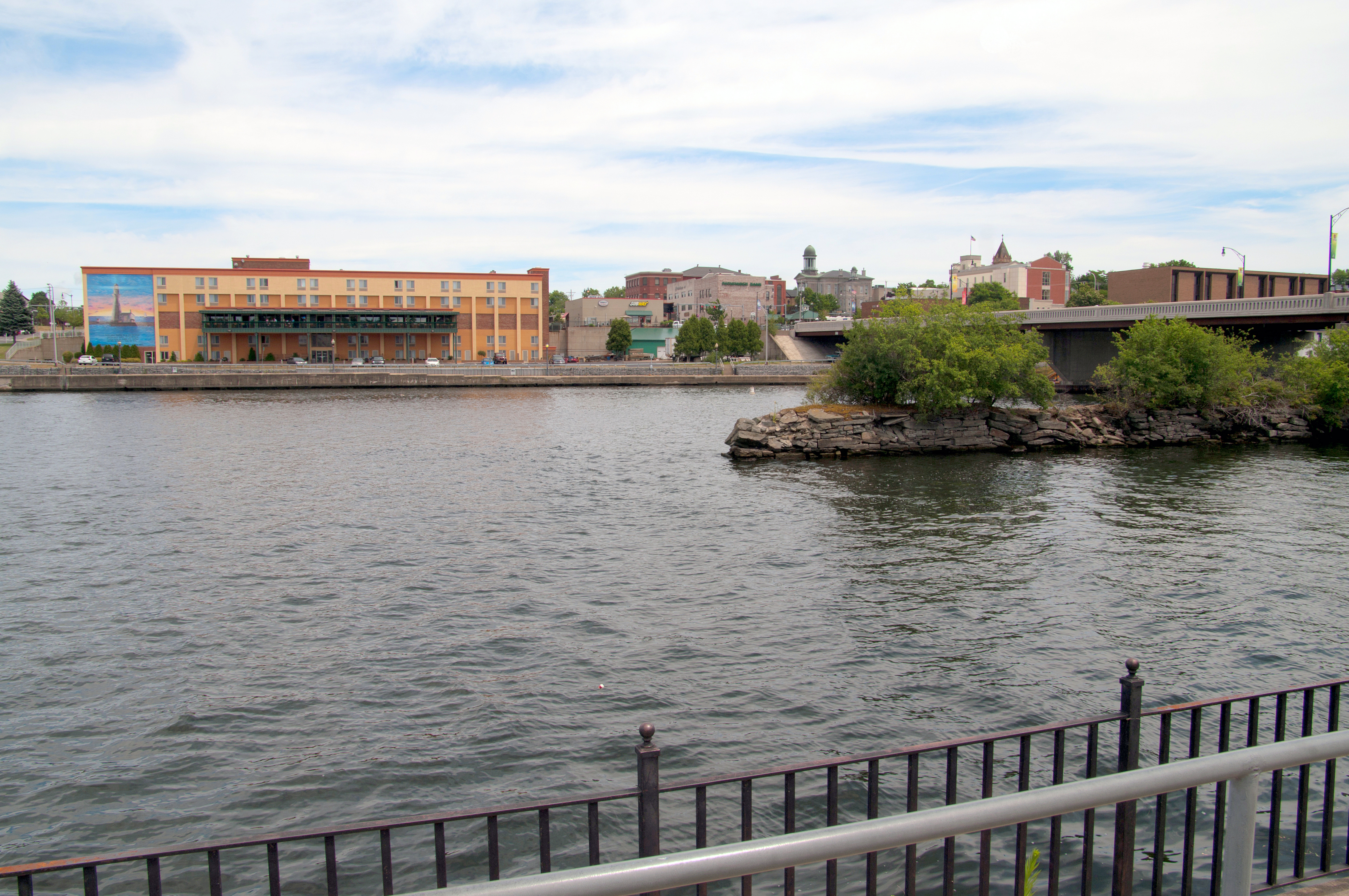 Bridge across the harbour in Oswego, NY.